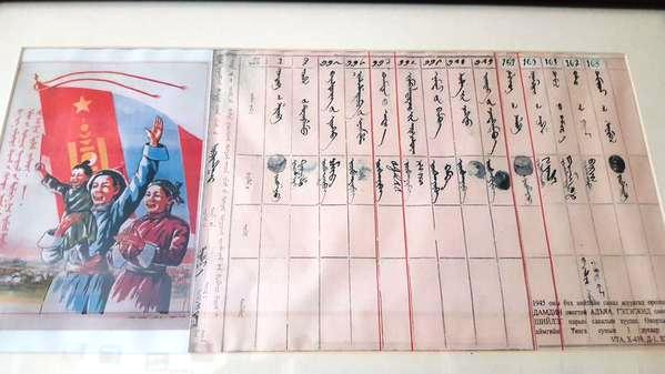 Unanimously confirmed Mongolia's independence Монгол: Монголчууд тусгаар тогтнолоо санал нэгтэйгээр саналын хуудас